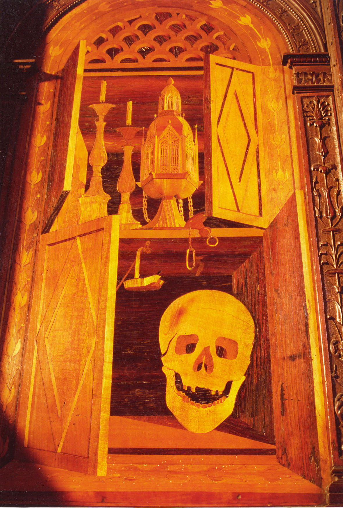 Marquetry from the choir-stalls